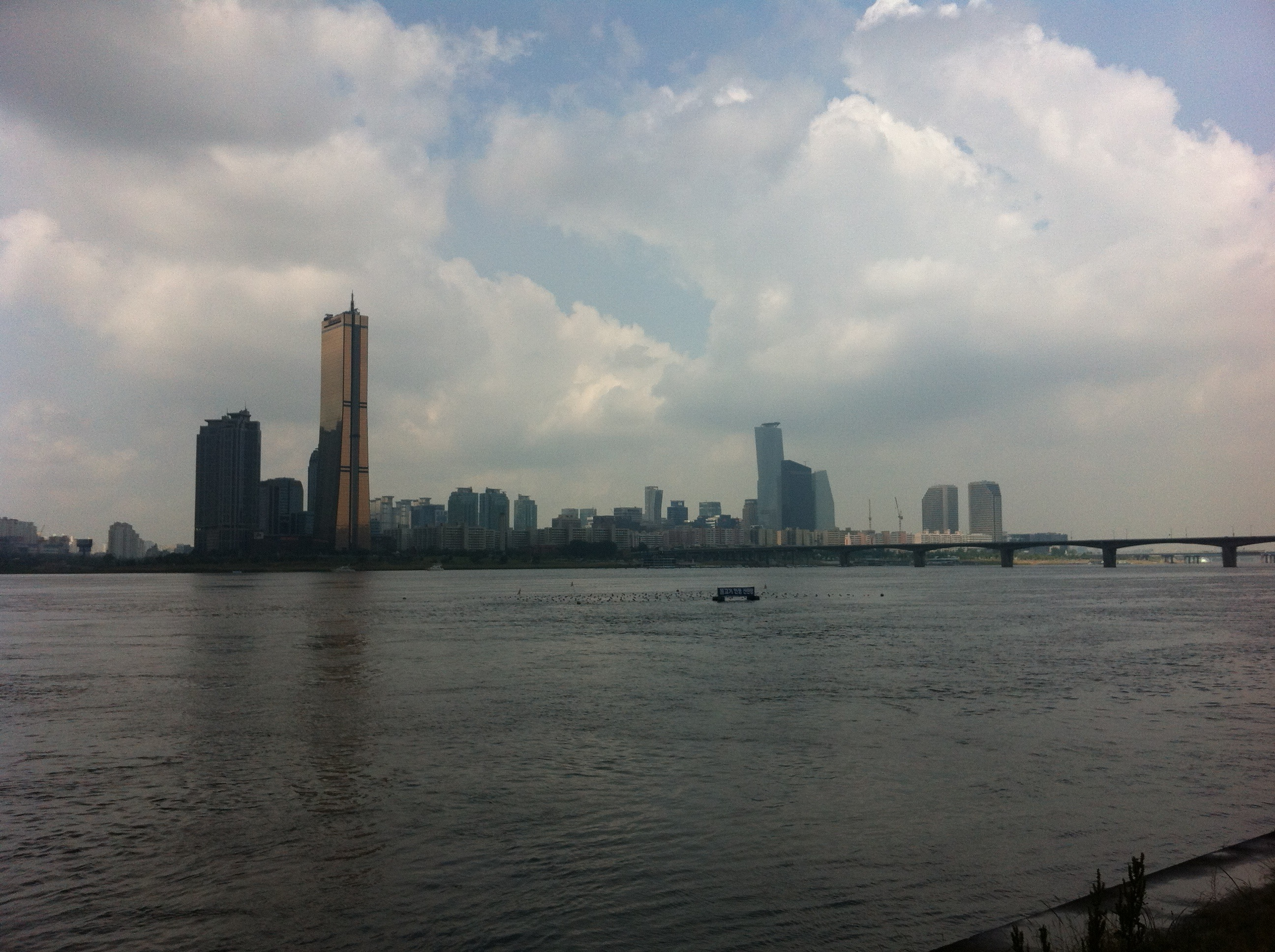 Han River Walk: Seoul Yeouido, Korea